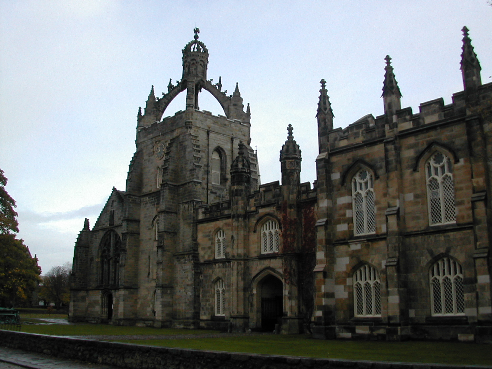 Nom du fichier : DSCN2485.JPG Taille du fichier : 756.5 Ko (774666 octets) Date : 2003/10/26 12:48:14 Taille de l'image : 1600 x 1200 pixels Résolution : 300 x 300 ppp Profondeur en bits : 8 bits/canal Attribut de protection : Désactivé Attribut Masqué : Désactivé ID de l'appareil : N/A Appareil : E775 Mode de qualité : FINE Mode de mesure : Multizones Mode d'exposition : Programme Auto Speed Light : Non Distance Focale : 5.8 mm Vitesse d'obturation : 1/121.3 seconde Ouverture : F7.9 Correction d'exposition : 0 IL Balance des blancs : Auto Objectif : Intégré Mode Synchro-Flash : Premier Rideau Différence d'exposition : N/A Programme Décalable : N/A Sensibilité : Auto Renforcement de la netteté : Auto Type d'image : Couleur Mode Couleur : N/A Saturation : N/A Contrôle Saturation : N/A Compensation des tons : Normal Latitude (GPS) : N/A Longitude (GPS) : N/A Altitude (GPS) : N/A